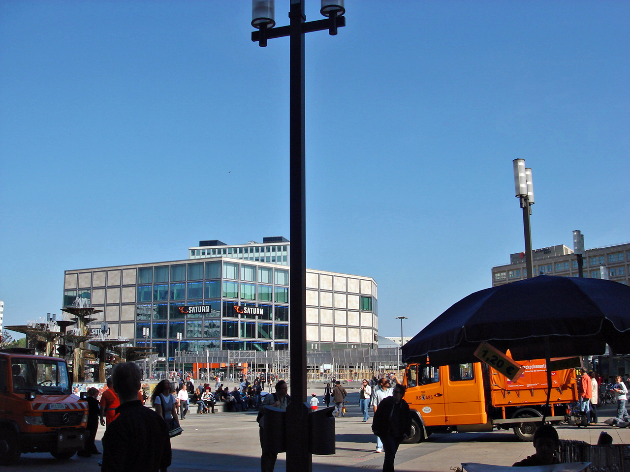 The new shopping center "die mitte" by Hines at Alexanderplatz seen from the "Fountain of Friendship between Peoples" at Alexanderplatz. It is planned to build a highrise next to "die mitte".